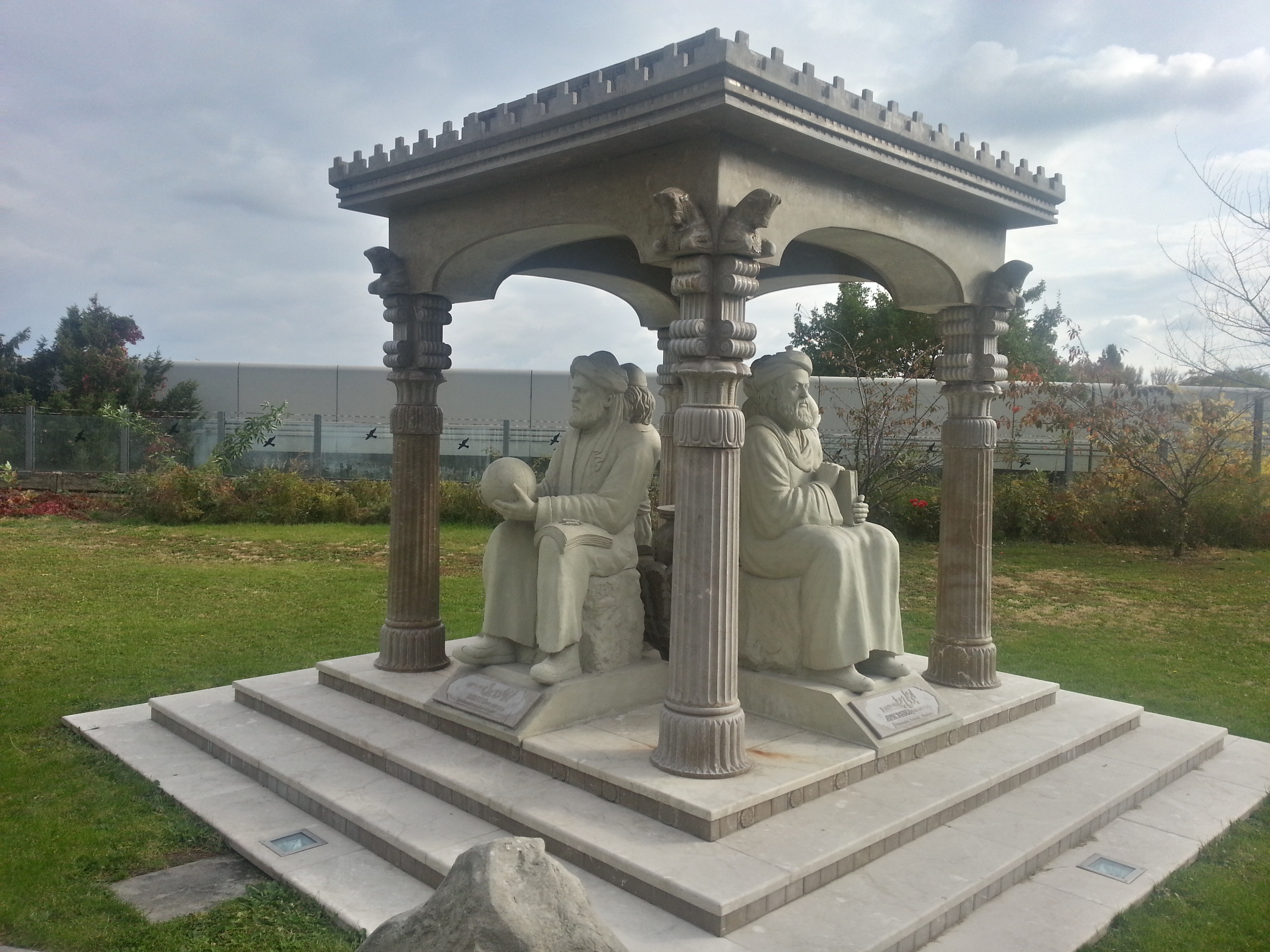 Persian Scholar Pavilion in Vienna International Centre donated by Iran. Jun 2009